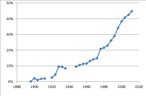 Plot showing number of women athletes at the Summer Olympic Games as a percentage of all participants. Data from Summer Olympic Games#List of modern Summer Olympic Games